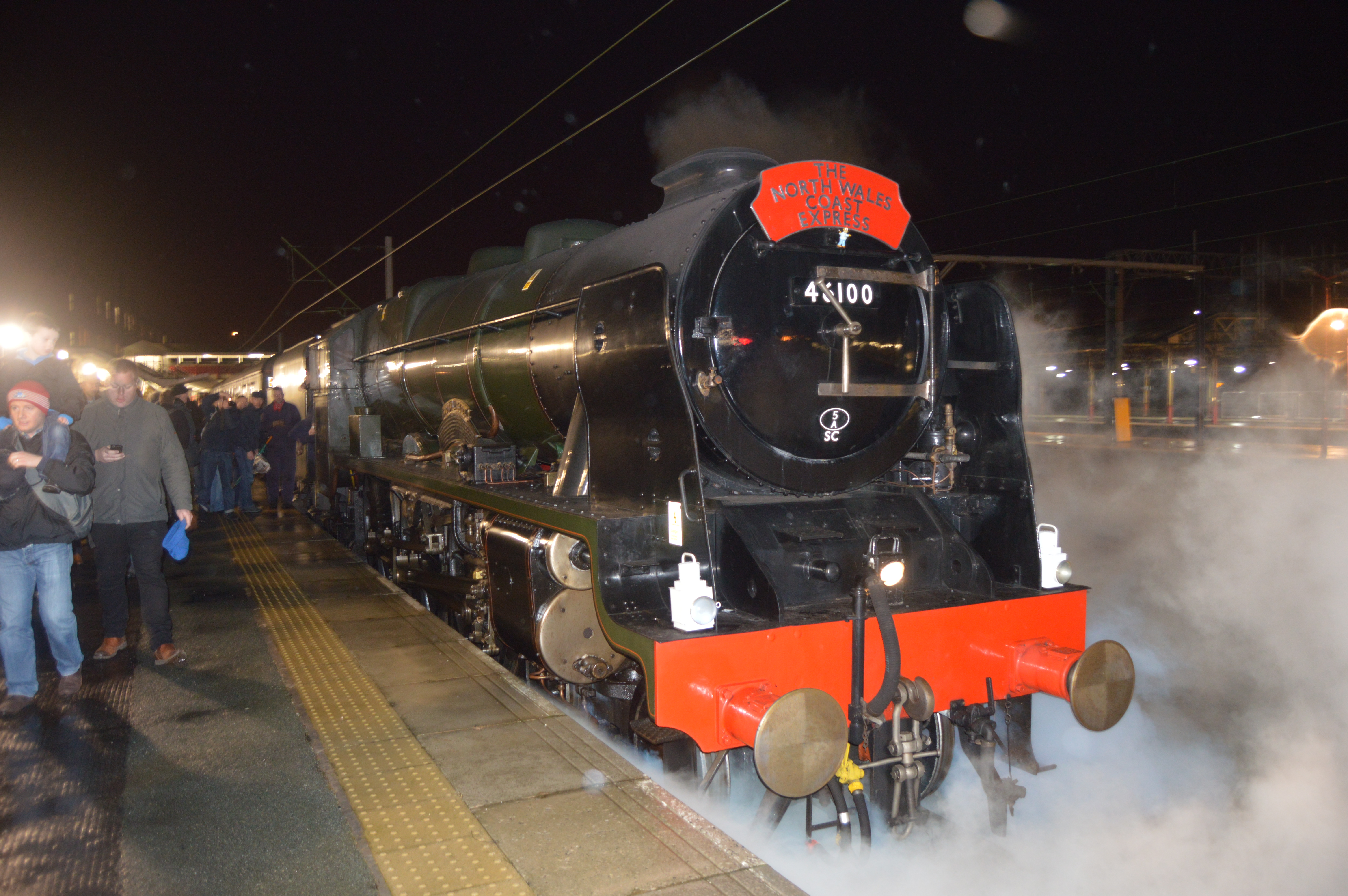 46100 Royal Scot after arriving back at Crewe with The North Wales Coast Express from Holyhead on Sat 6th February 2016.